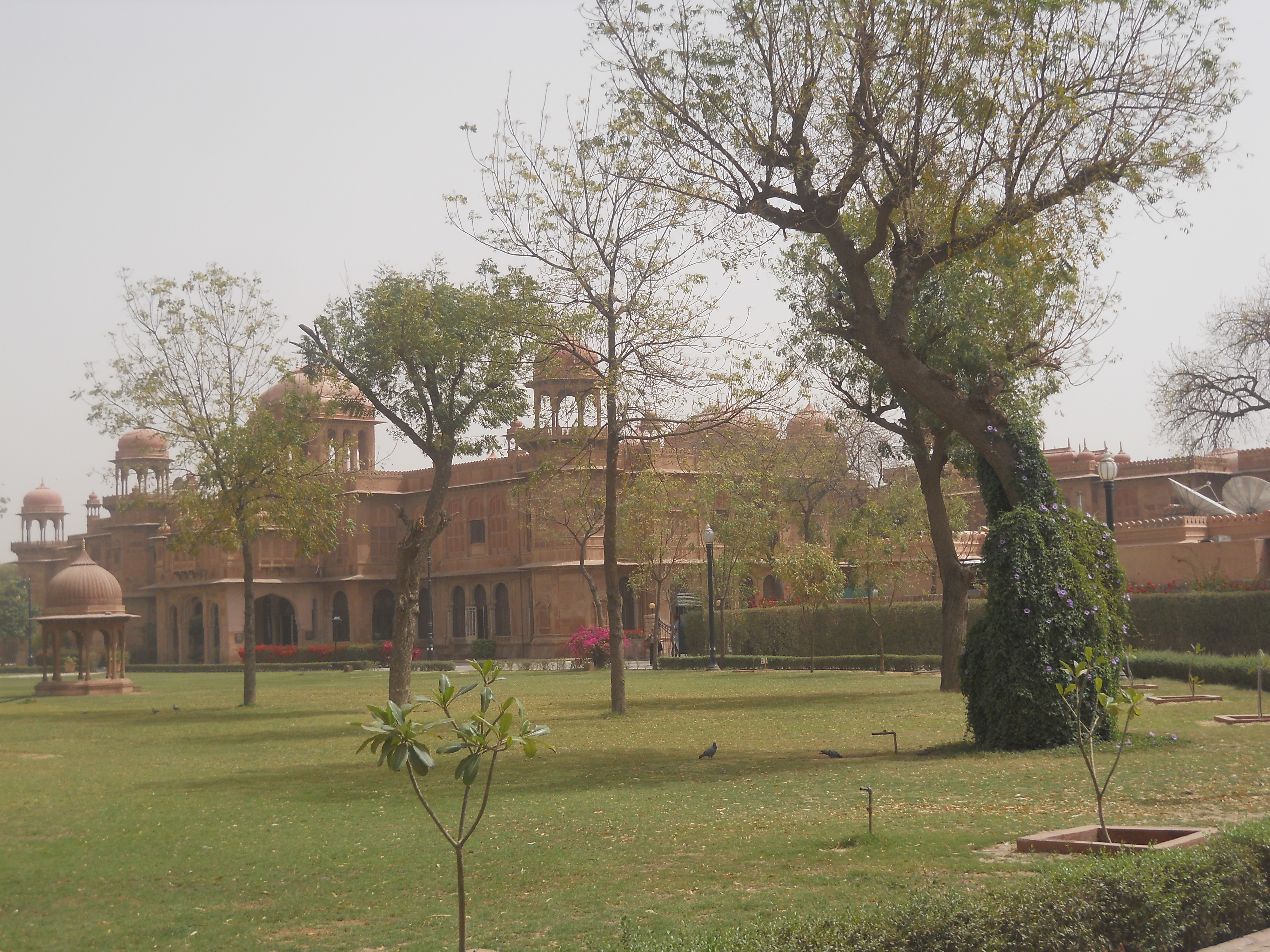 Lalgarh Palace is a palace in Bikaner in the Indian state of Rajasthan, built for H.H. Sir Ganga Singh, Maharaja of Bikaner, between 1902 and 1926